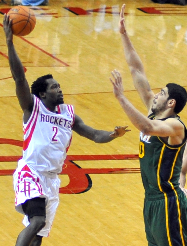 Patrick Beverley of the Houston Rockets takes a shot as Enes Kanter of the Utah Jazz defends during an NBA basketball game on March 17, 2014, at the Toyota Center in Houston, Texas.